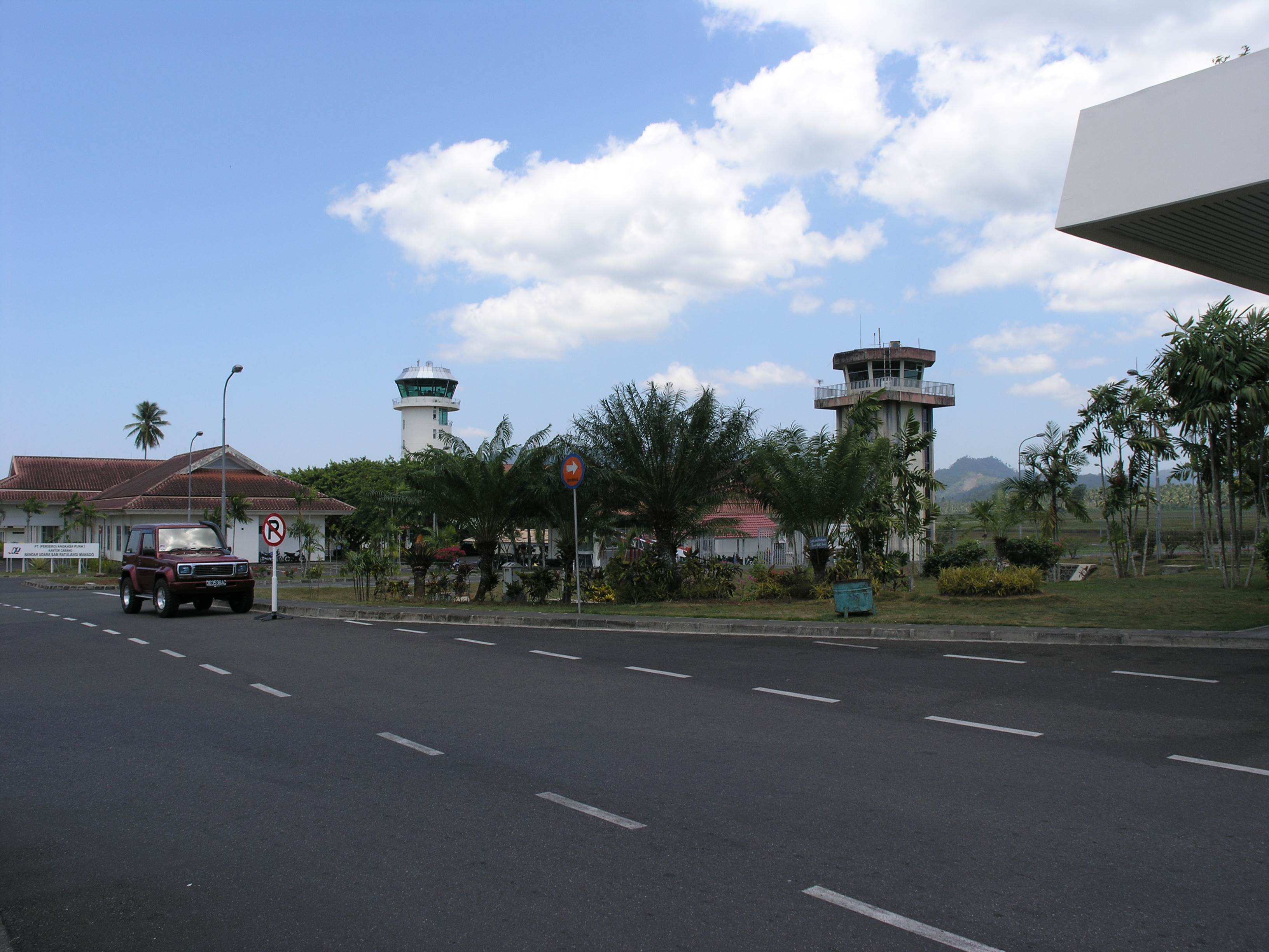 Picture of new and old air traffic control tower, Manado airport, North Sulawesi, Indonesia. (The old tower has since been demolished).